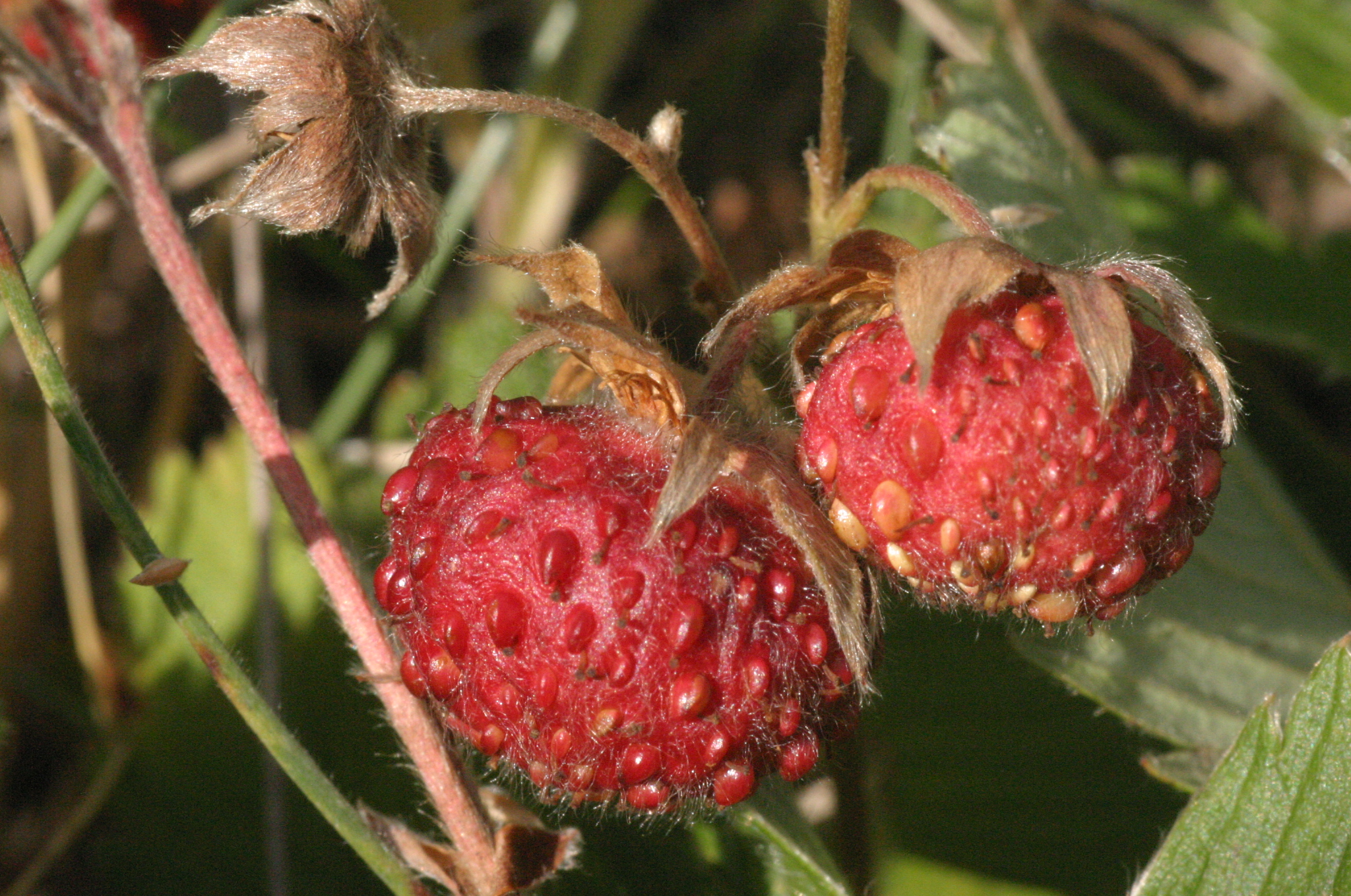 Fragaria viridis